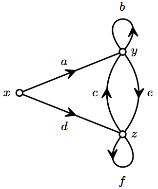 Example for return loop methods FRL and BRL